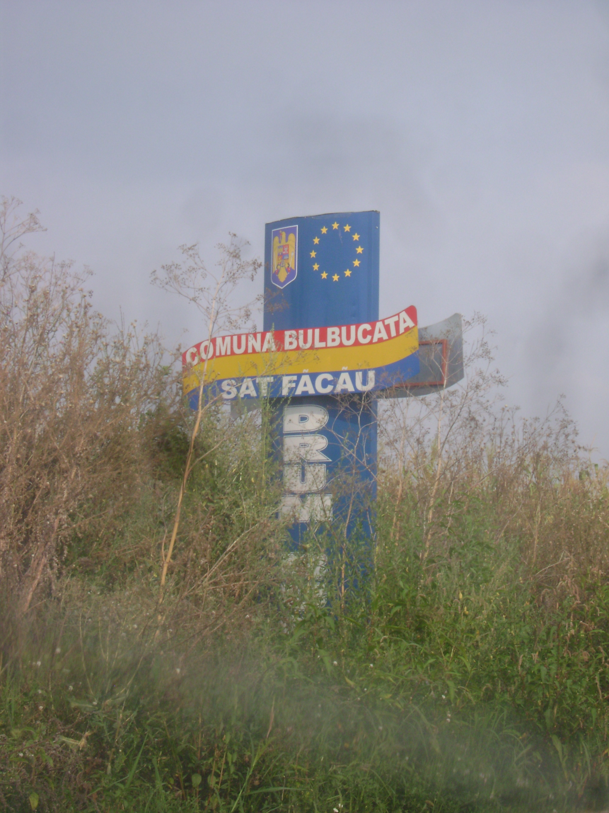 Welcome sign in the commune Bulbucata, Romania